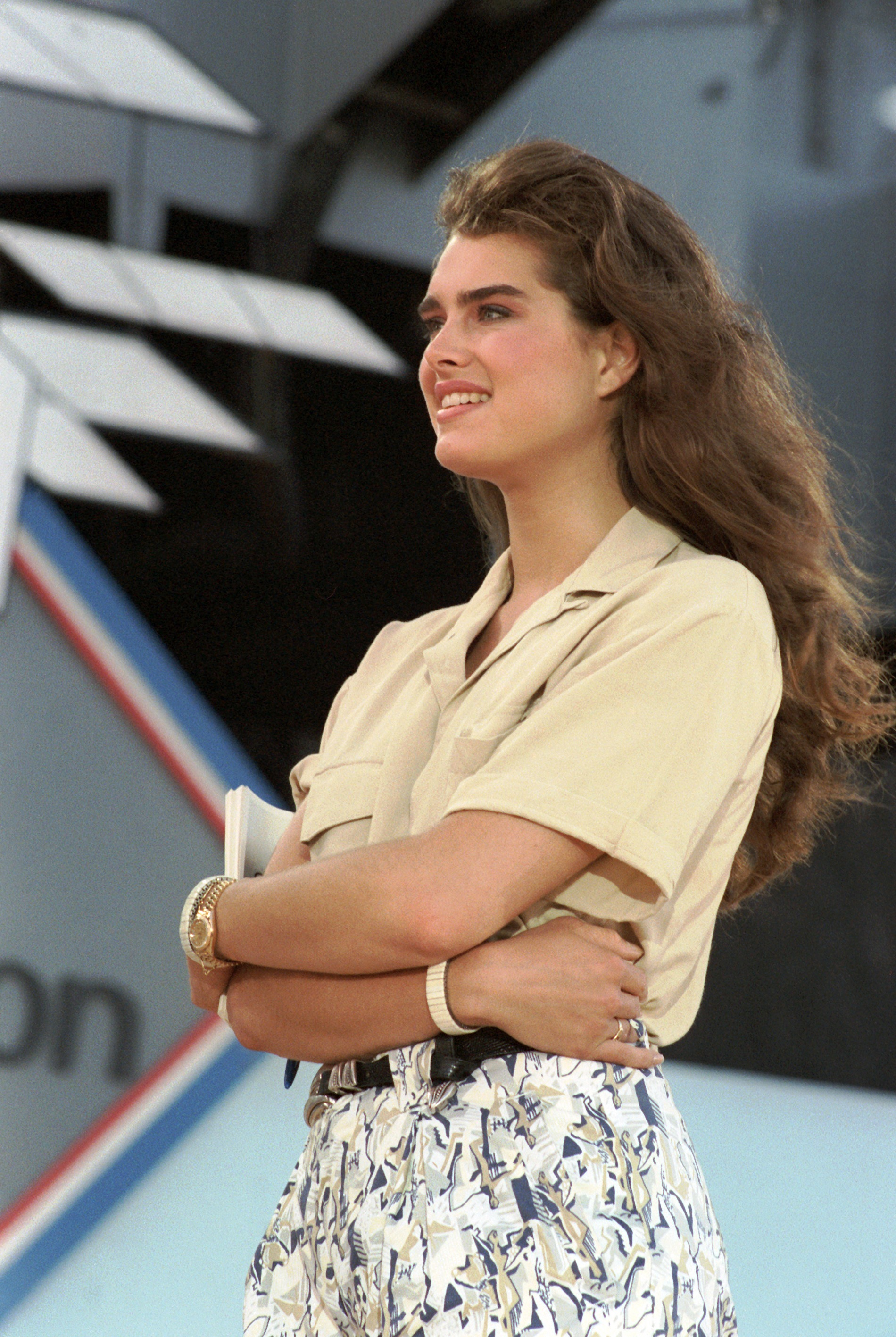 Brooke Shields at Naval Air Station, Pensacola in 1986.